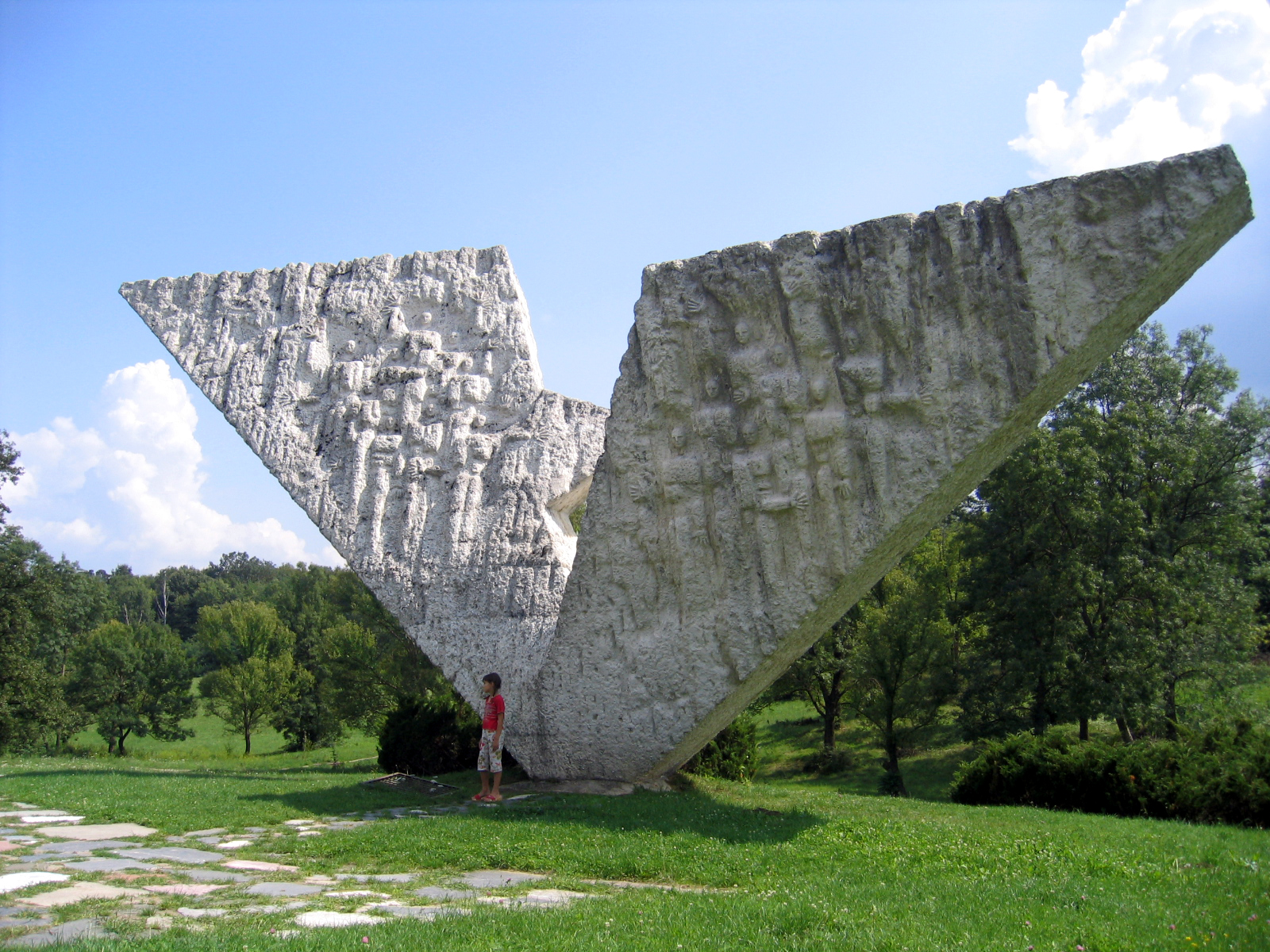 Broken wings monument in Memorial park Šumarice in Kragujevac, Serbia, where 7000 pupils were shot by German nazis